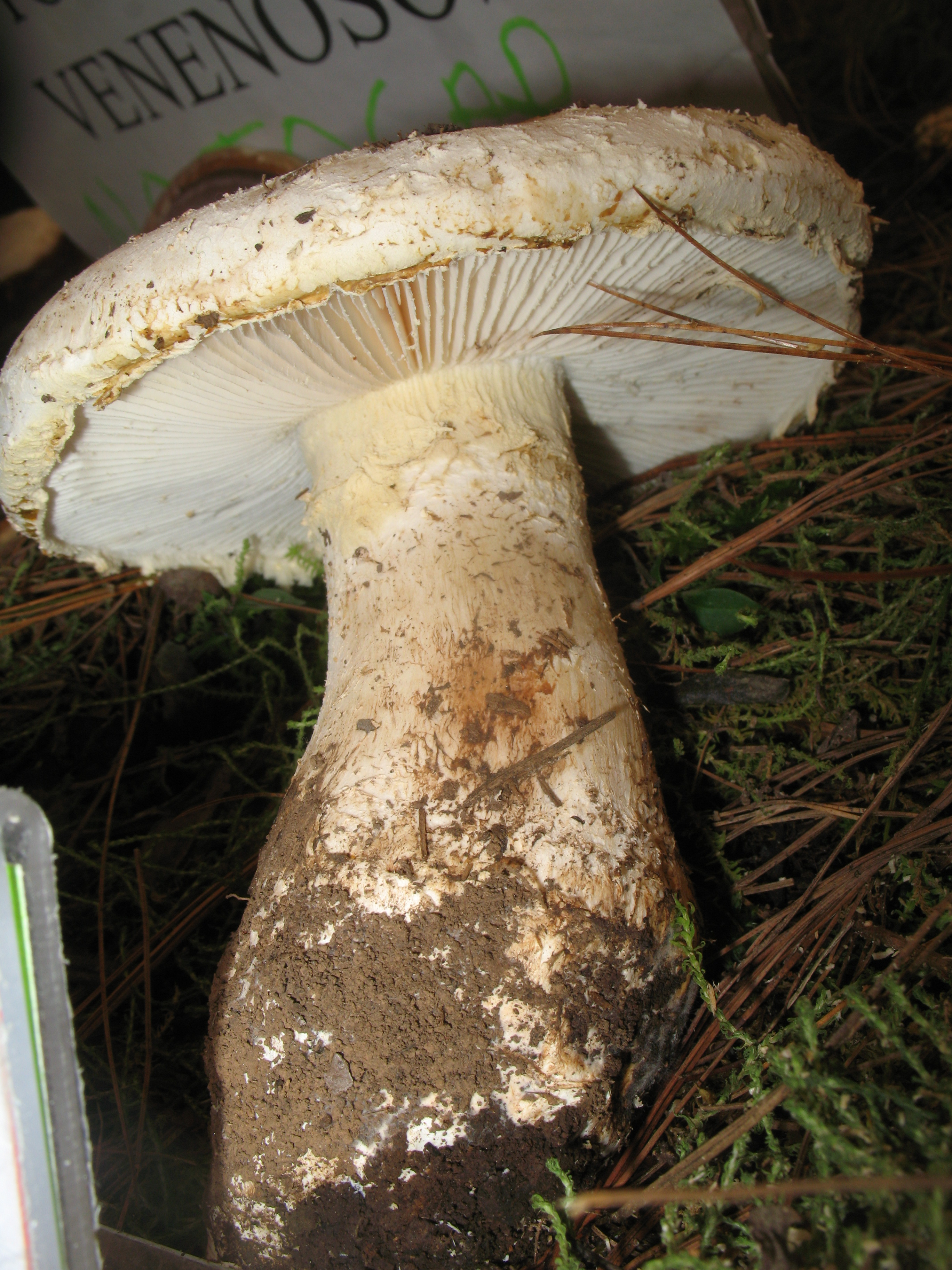 The mushroom Amanita chlorinosma (Peck in Austin). Notes: "On display at the 11th Annual Fungus Fair in Senguio, Michoacan, Mexico. Bad smell on this one, somewhat chemical like."